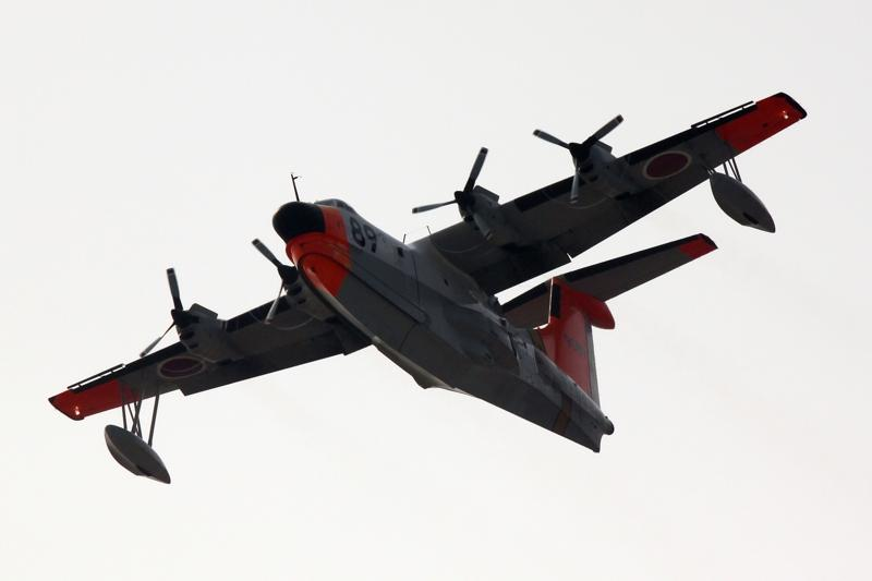 First of all, a big thankyou for Planephotoman for processing this for me. Taken in bad weather against the light I'd given up on it. I'd always wanted to see one of these fly and was lucky enough to realise my ambiton. Apparently they only fly once a week, on a Monday.